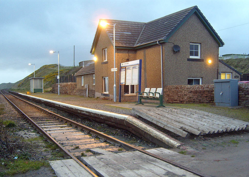 Braystones railway station, Cumbria, England, early evening, 10 November 2007